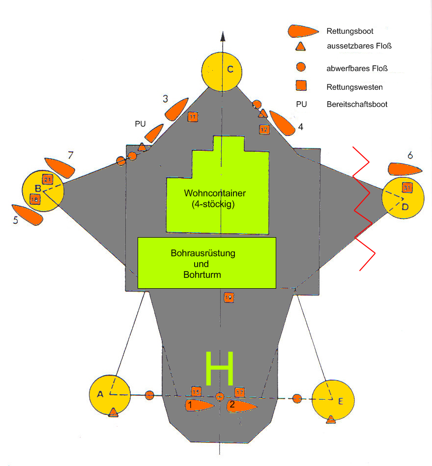 Rescue Stations of the oil rig Alexander L. Kielland - drawing shows liveboats, rafts and live jackets